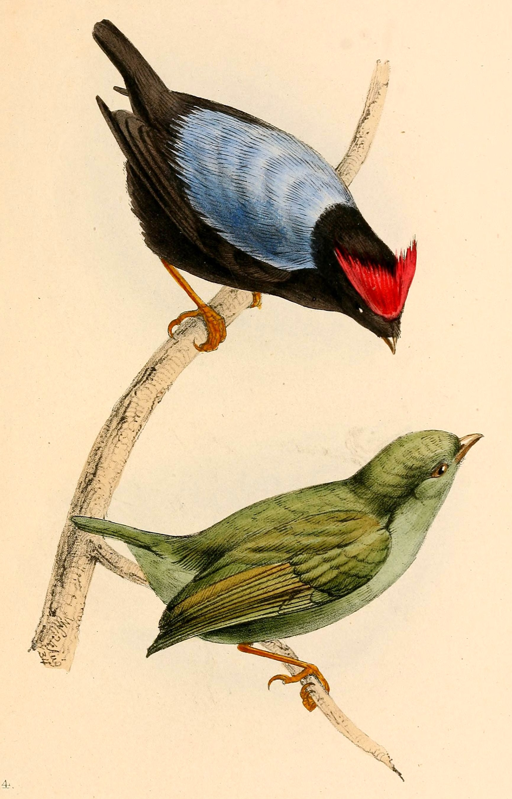 Pipra pareola = Chiroxiphia pareola (Blue-backed Manakin)